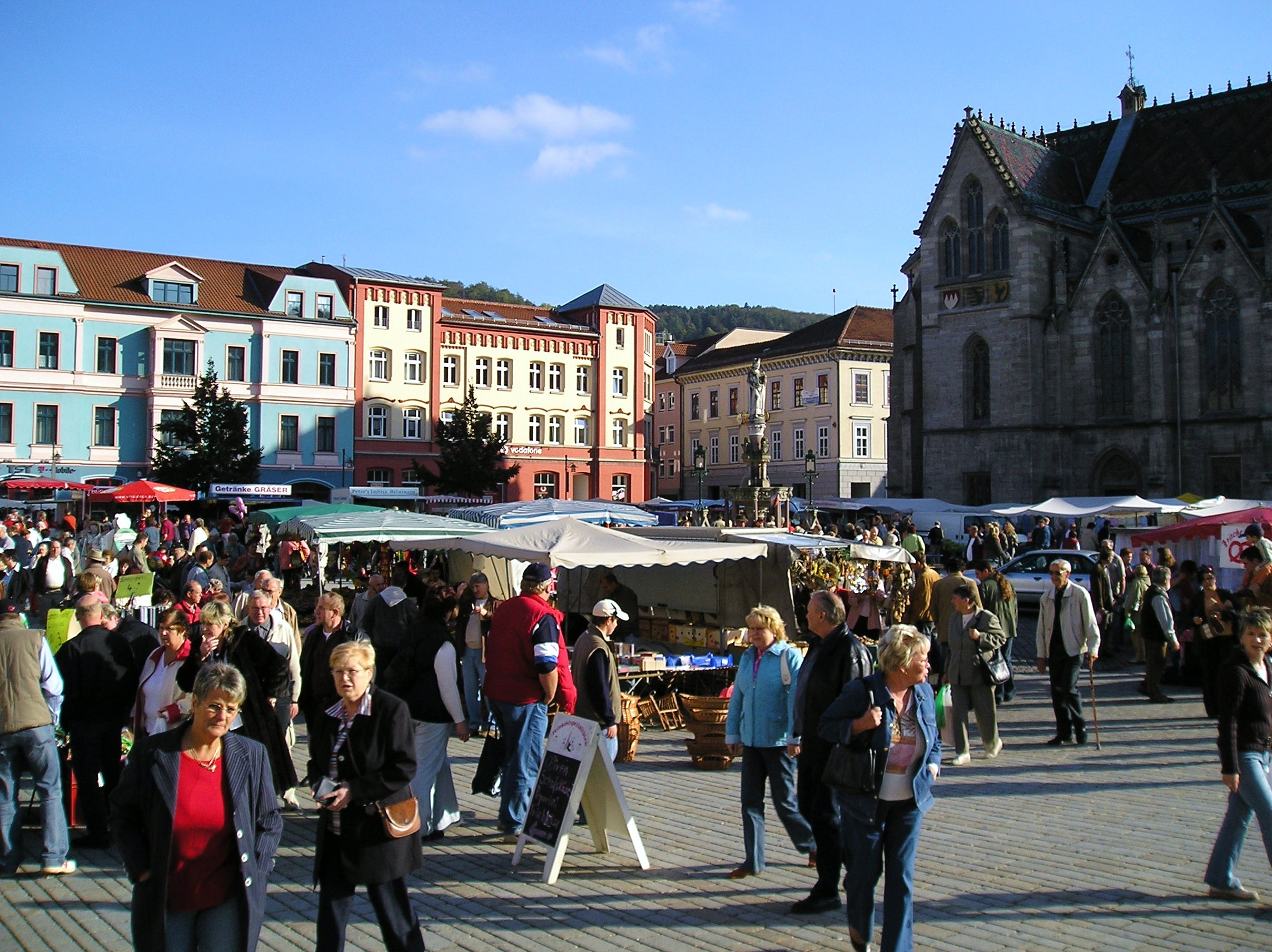 Autumn Market in Meiningen (Octobre 2006)